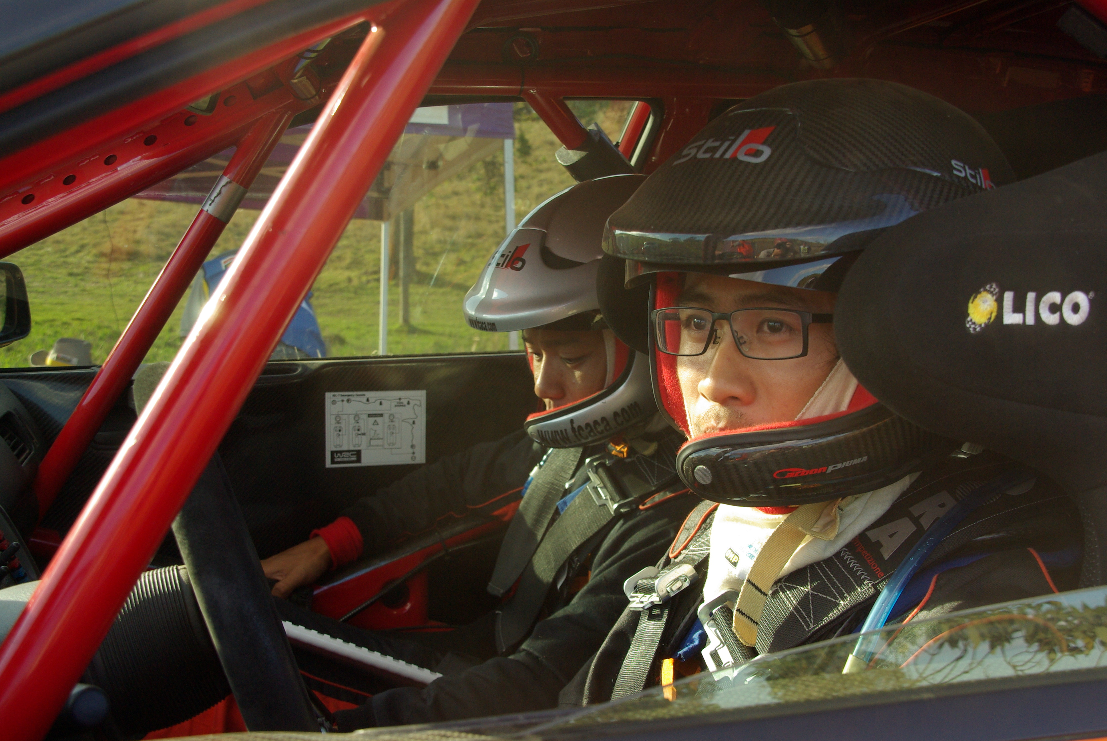 Han Han competing at WRC Rally Australia 2009. Completing SS20 CTEK West stage on Hillyards Road on Day 2